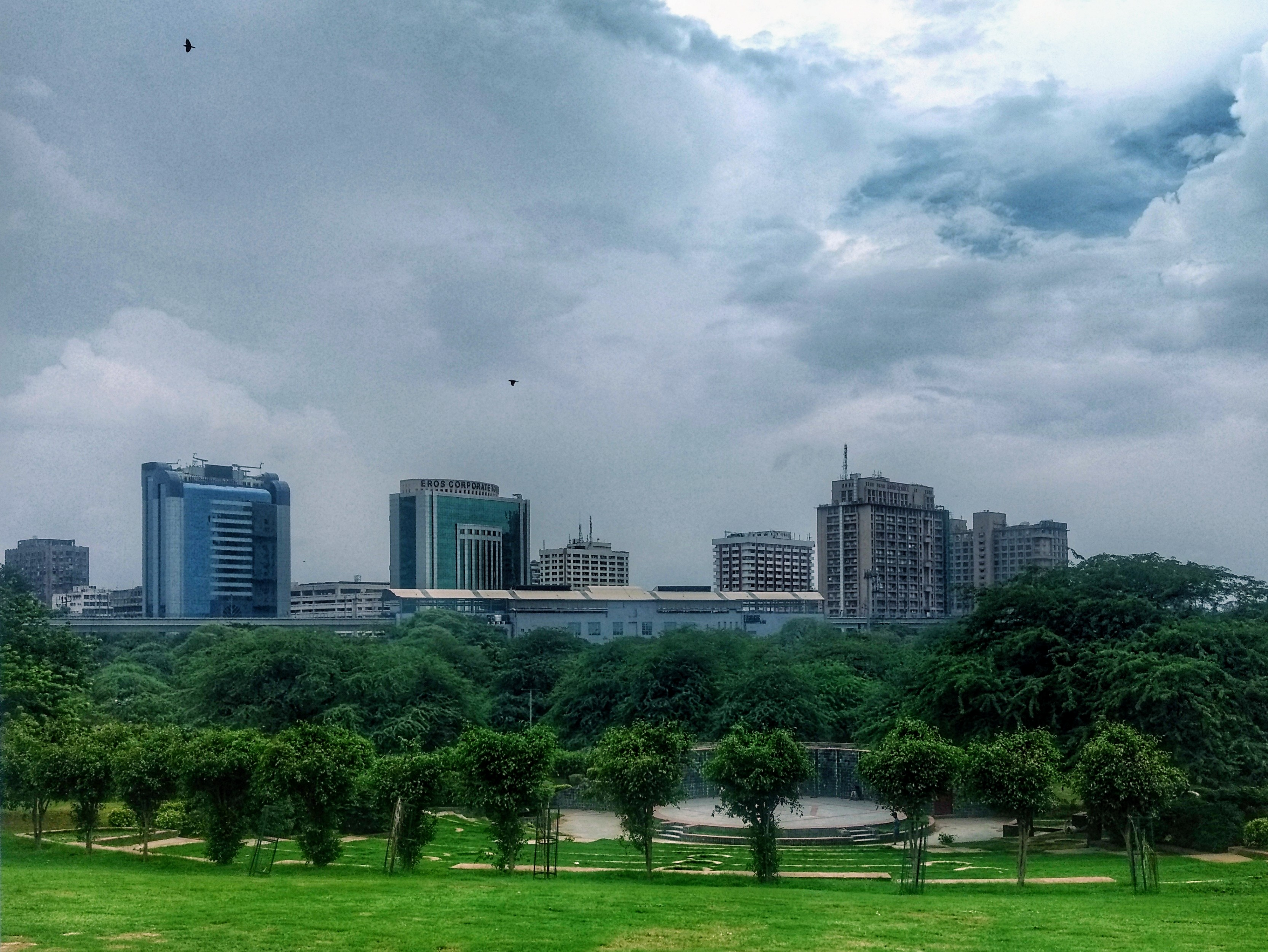 Skyline of Nehru Place IT park, Delhi seen from Astha Kunj park. In the forefront is the metro station.